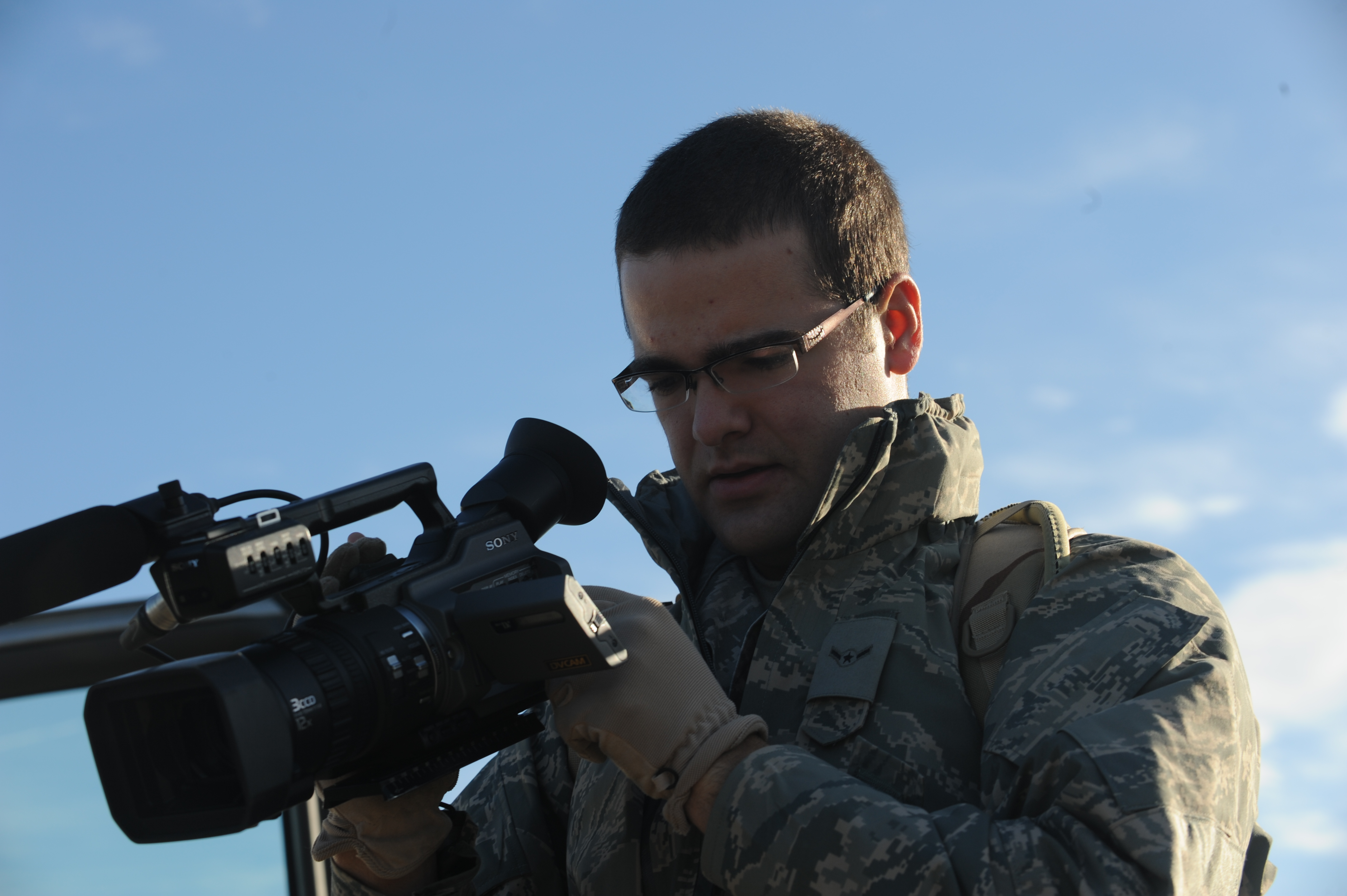 U.S. Air Force Airman Daniel Johnson performs a function check on his video camera before shooting a U.S. C-17 Globemaster III aircraft from Charleston Air Force Base, S.C. conduct a strategic brigade airdrop exercise over North Auxiliary Airfield near North, S.C., Dec. 16, 2009, demonstrating the global projection of U.S. airpower.